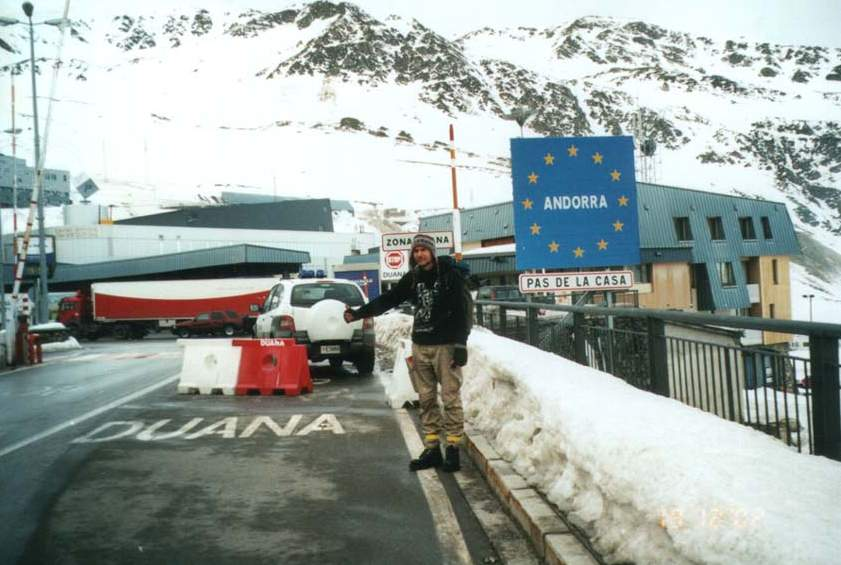 Hitch-hiking in Pas de la Casa, Andorra, before the old customs building.